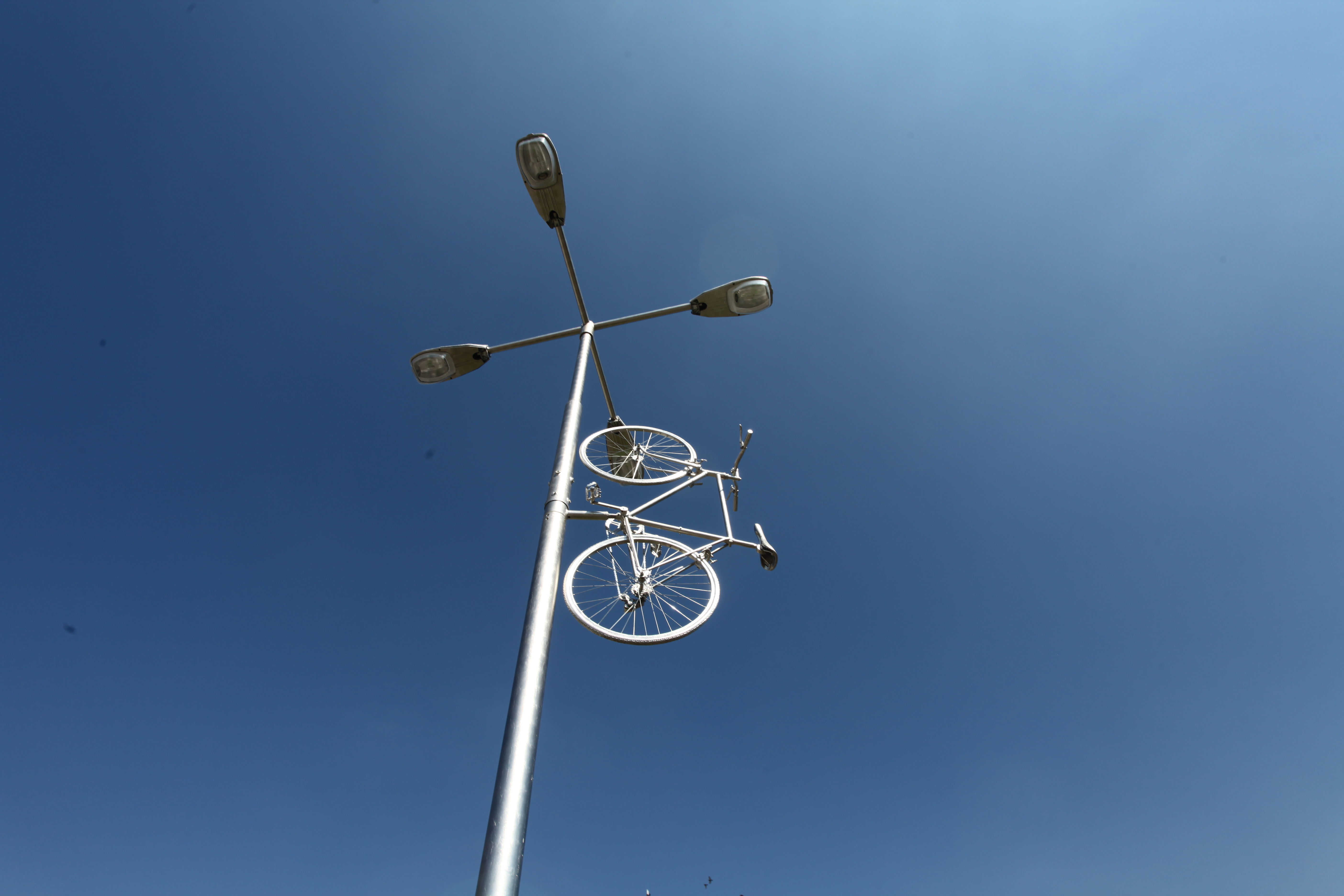 Bike to Heaven, a memorial of the activist Jan Bouchal. Author: Krištof Kintera, place: Kapitána Jaroše Embankment, Holešovice, Prague, the Czech Republic.